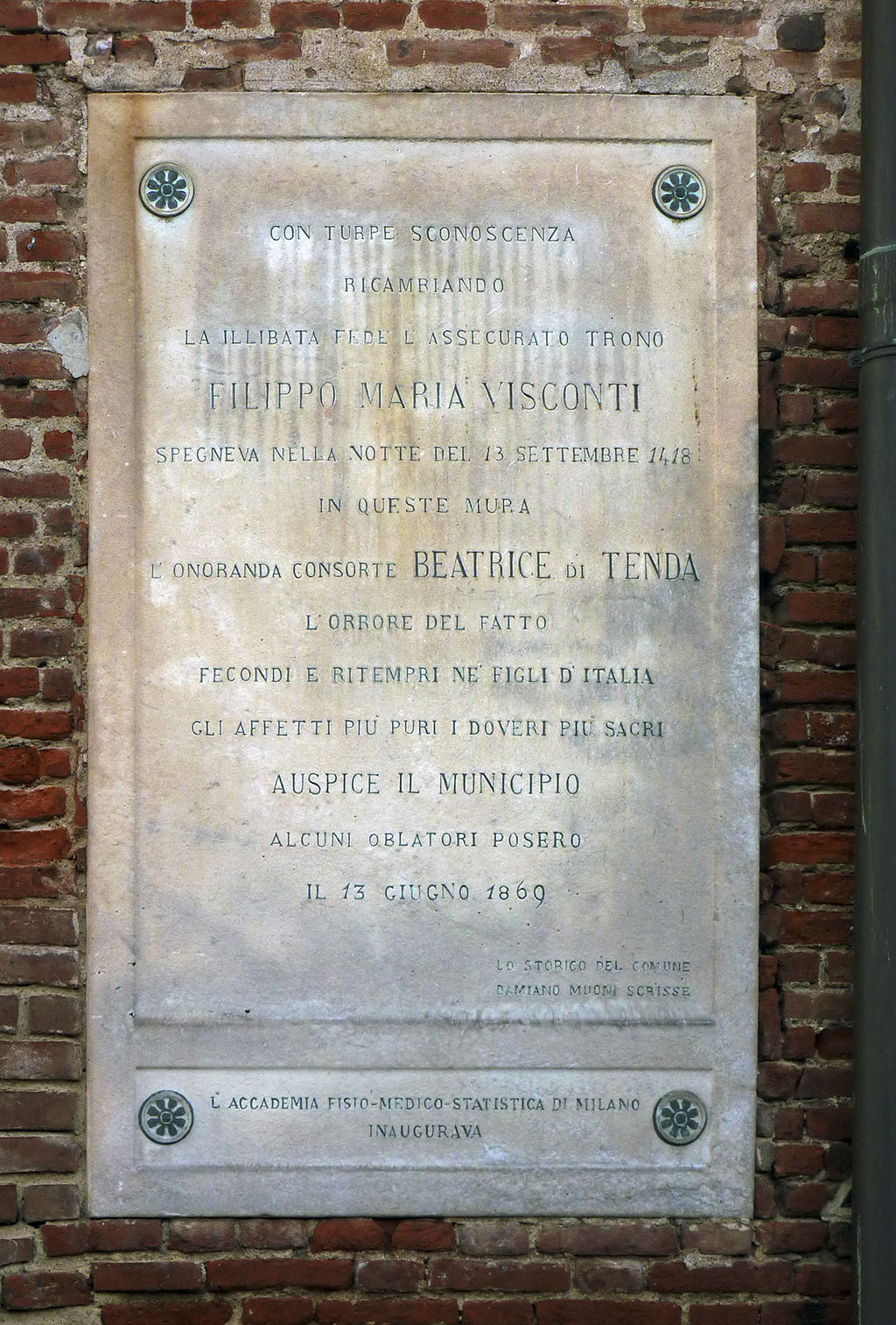 The marble plate appearing on the Binasco castle's wall, in Lombardy, to remember the murder of Beatrice di Tenda, in 1418, committed by her husband Filppo Maria Visconti to get her properties.